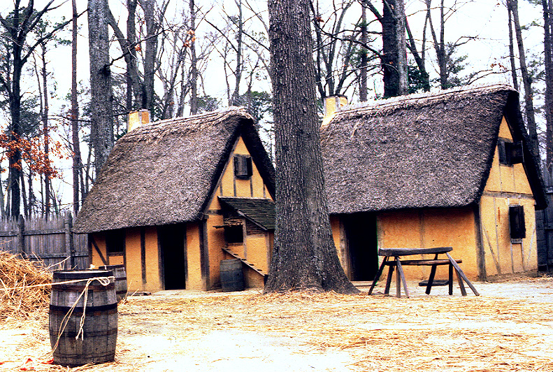 Reconstructed fist houses at Jamestown